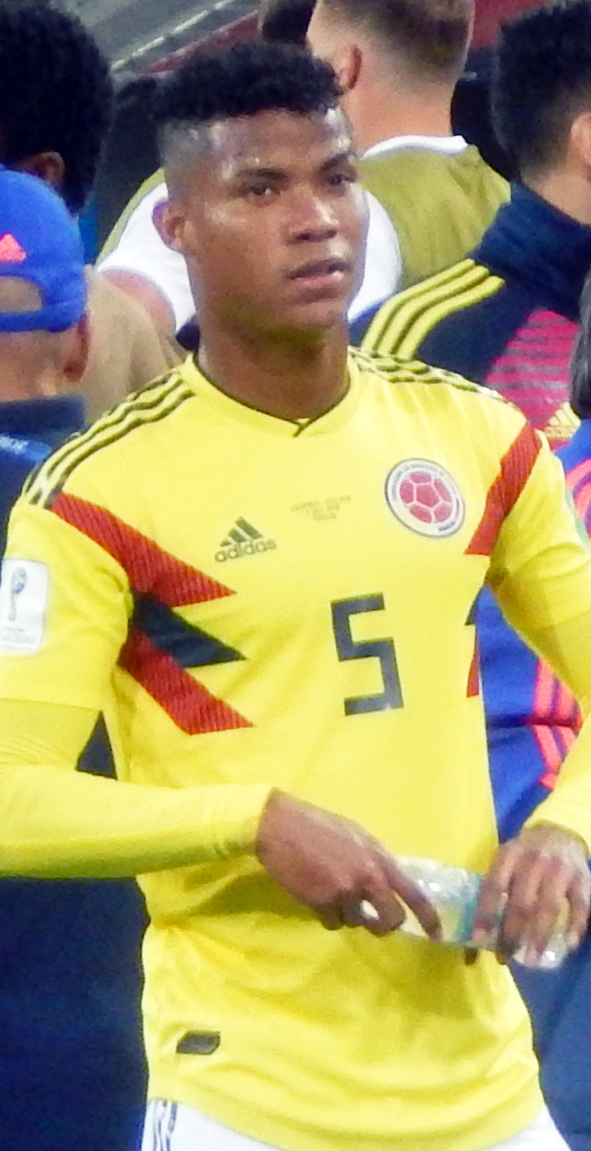 FIFA World Cup 2018, Round of 16, Colombia vs. England